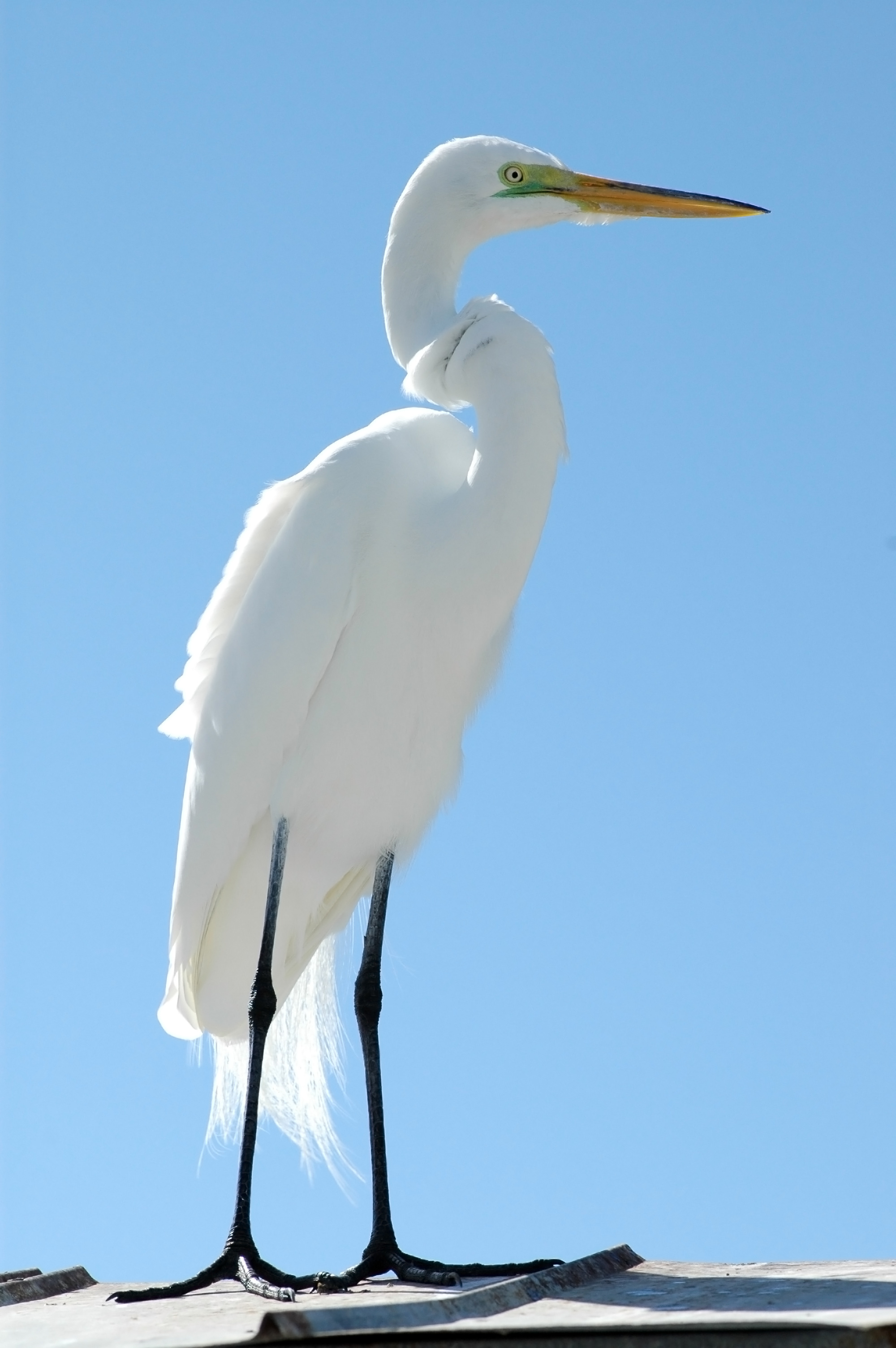 Great egret (Ardea alba) on a hot tin roof in Key West, Florida